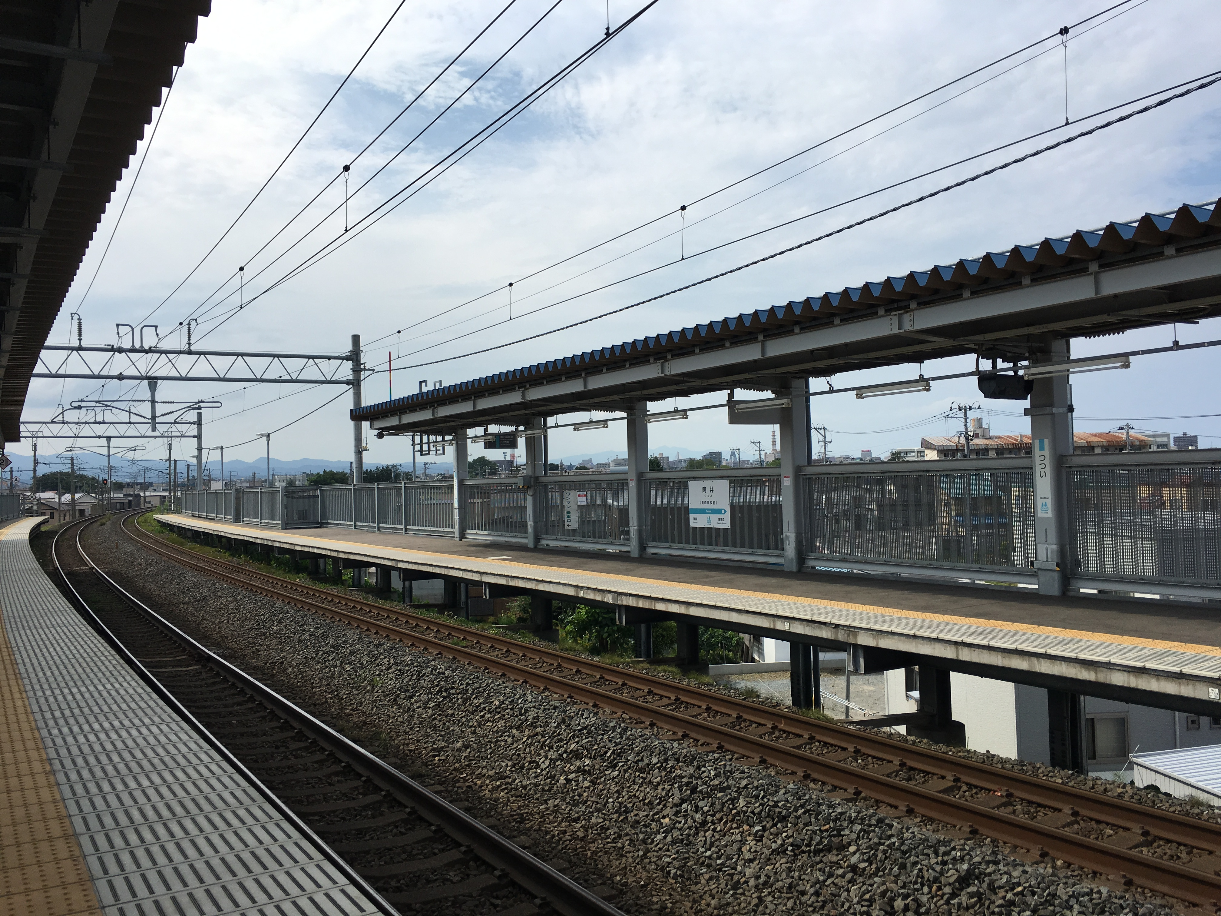 Tsutsui station platform